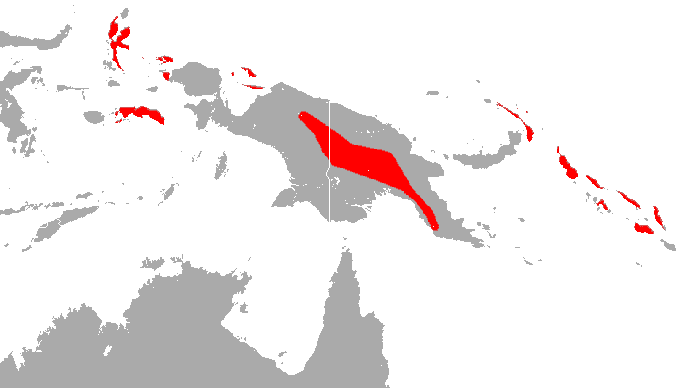 Raffray's Sheath-Tailed Bat (Emballonura raffrayana) range